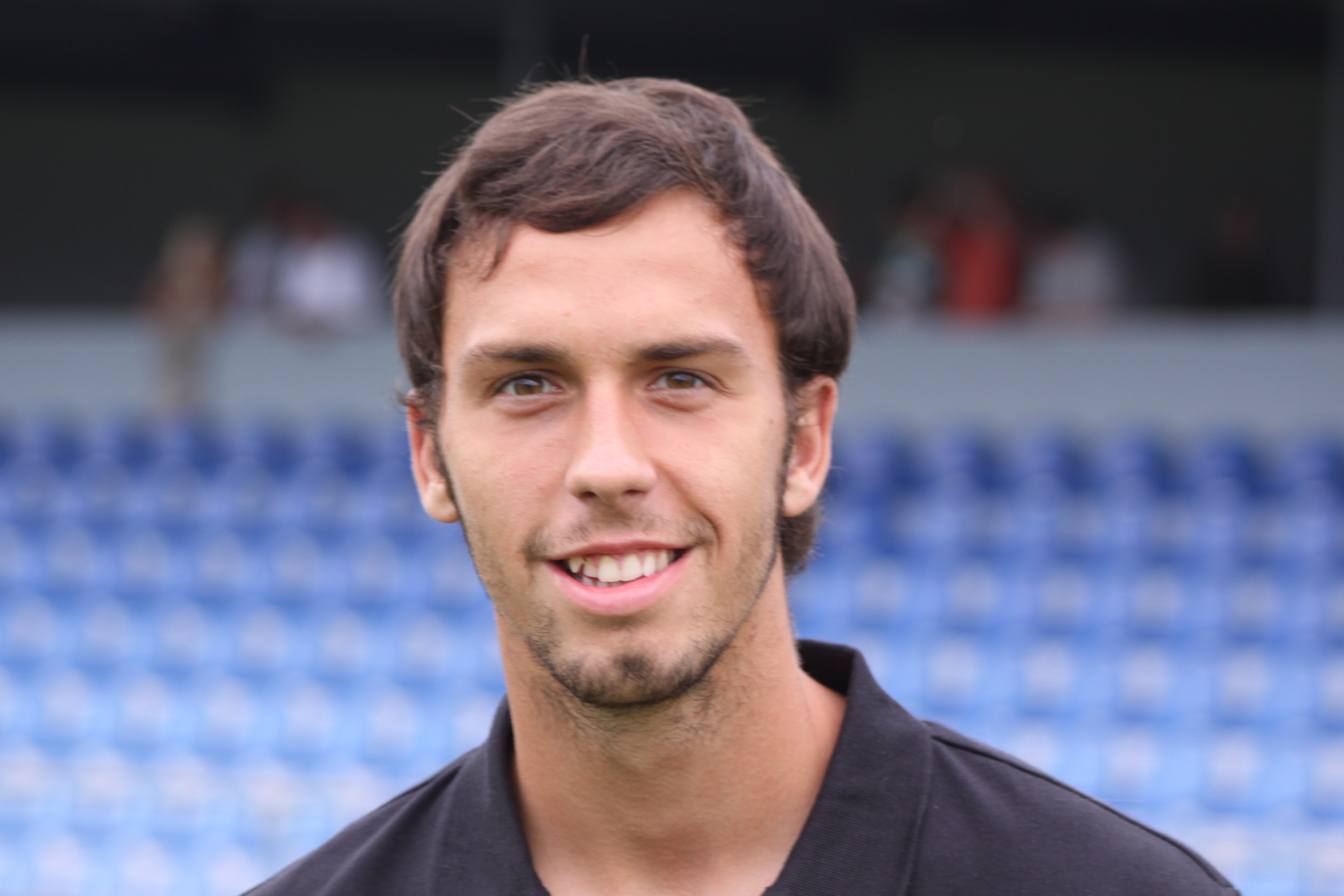 Jan Vošahlík - FK Baumit Jablonec